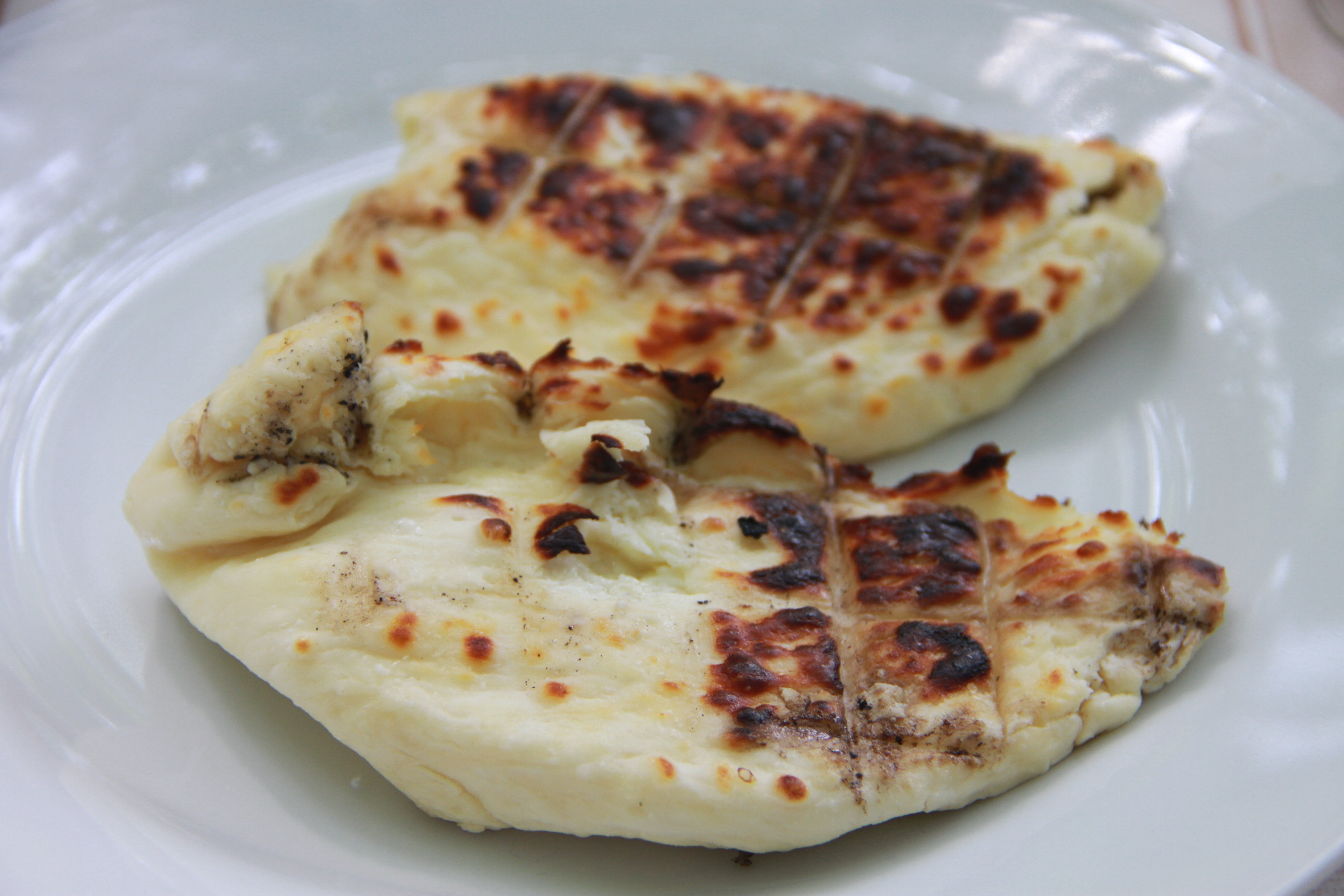 Grilled haloumi cheese. Troodos Mountains, Cyprus